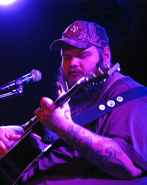 This is a new version of an uploaded pic of Moreland this time without light in background.